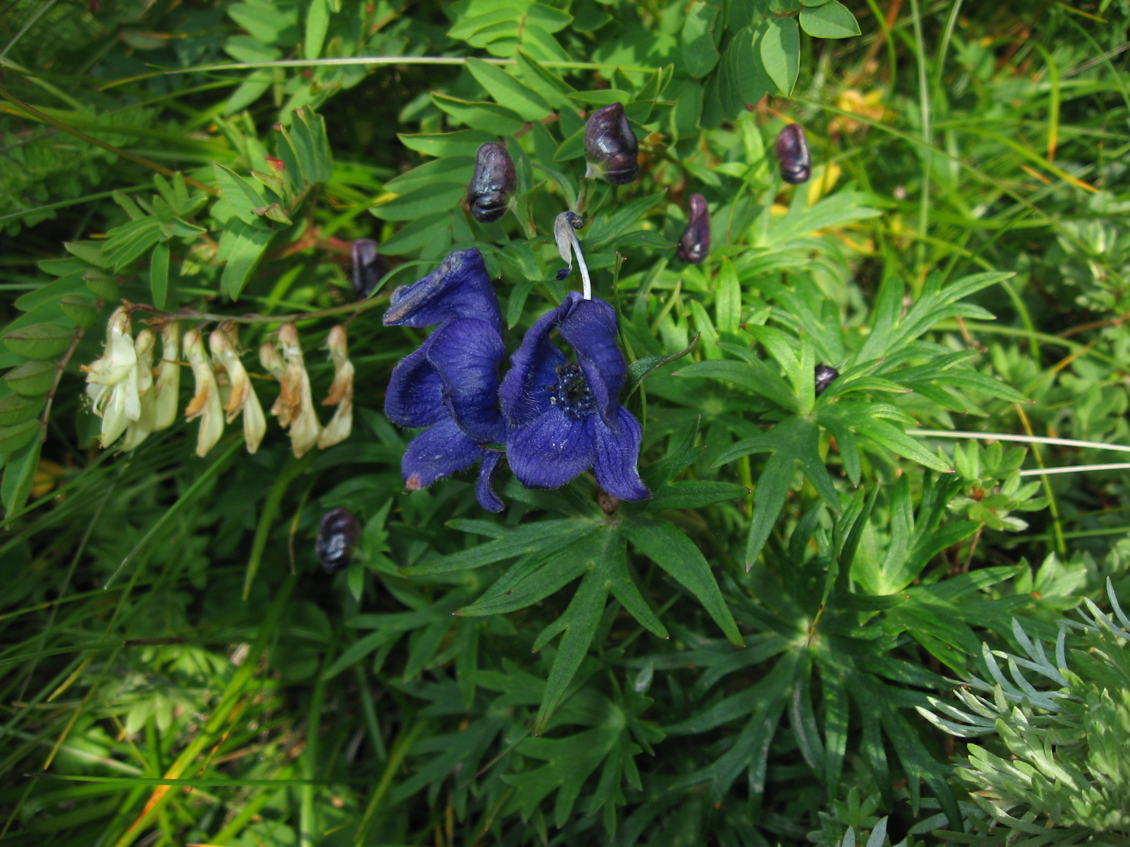 Aconitum kitadakense Nakai